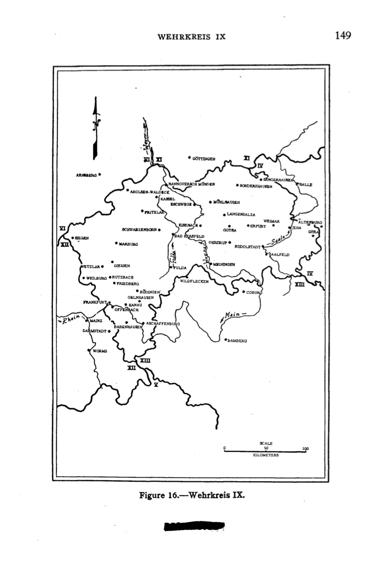 Map of the Wehrkreis, Military District, IX.